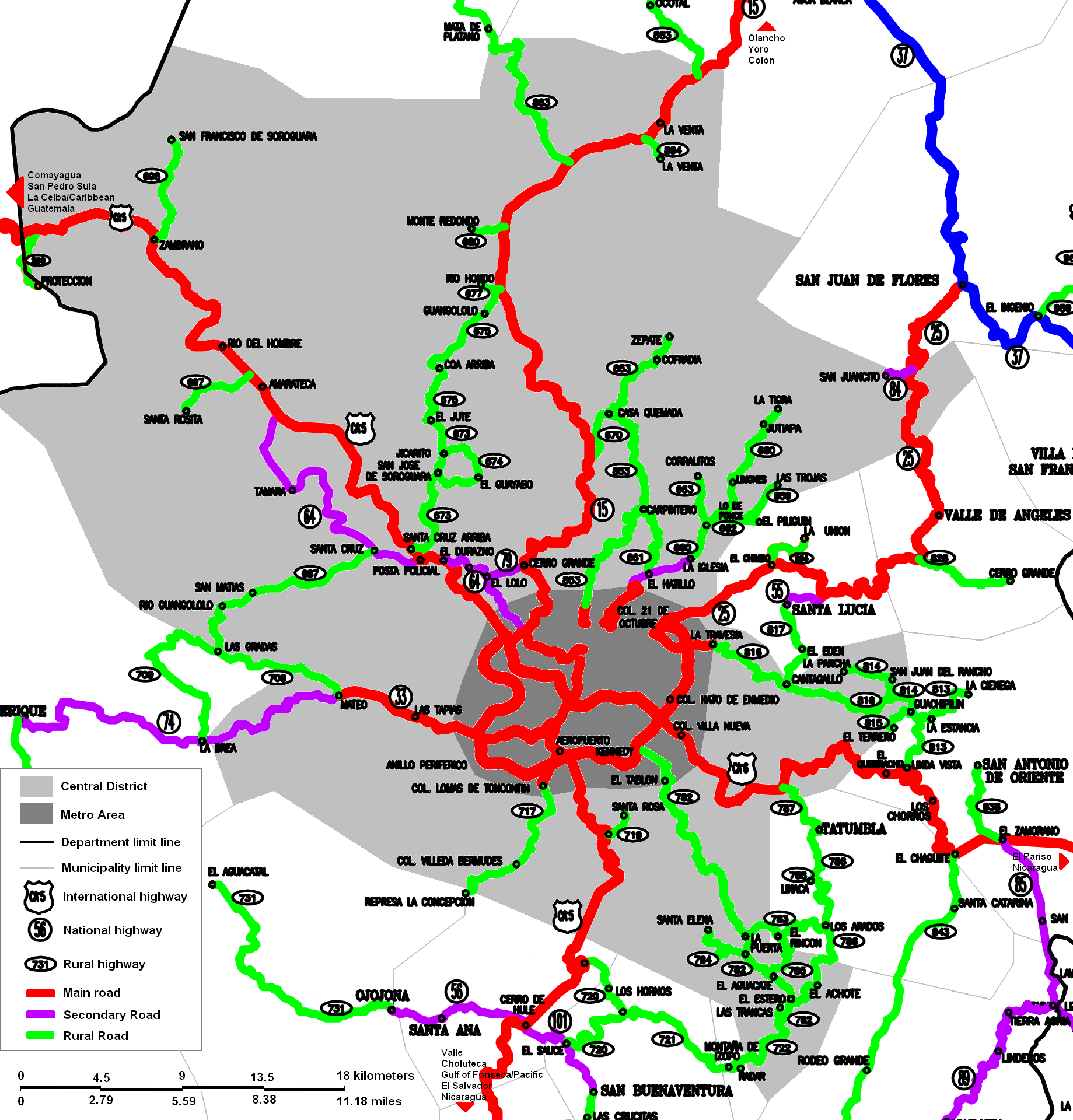 Road network map of the Central District — a municipality and the capital of Honduras. See Legend for description.